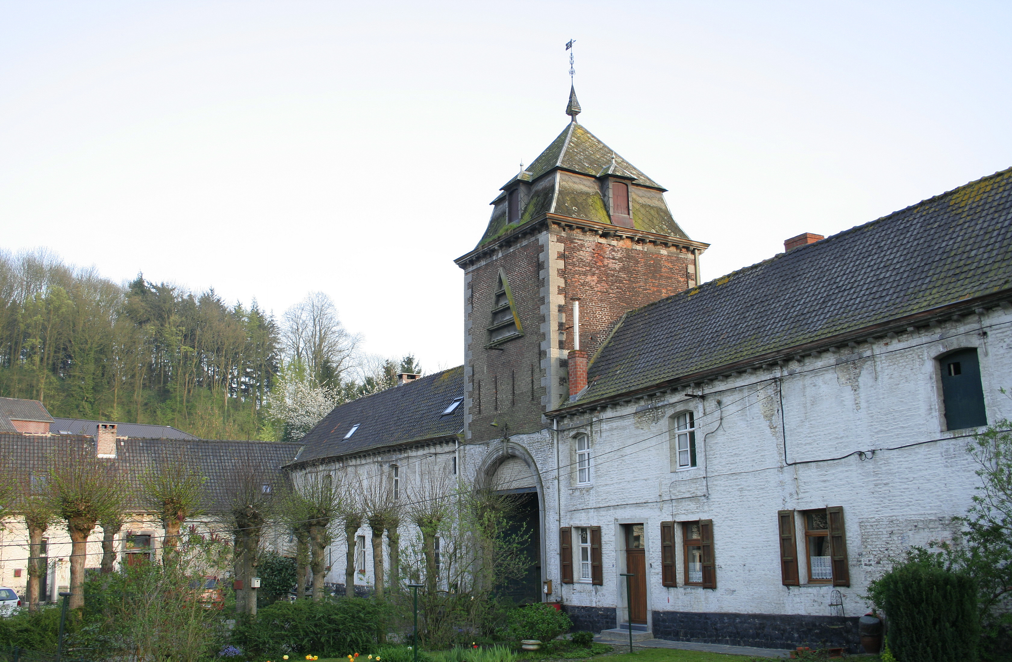 Saint-Denis (Mons) Belgium, the farm of the Saint Denis-en-Broqueroie Abbey.